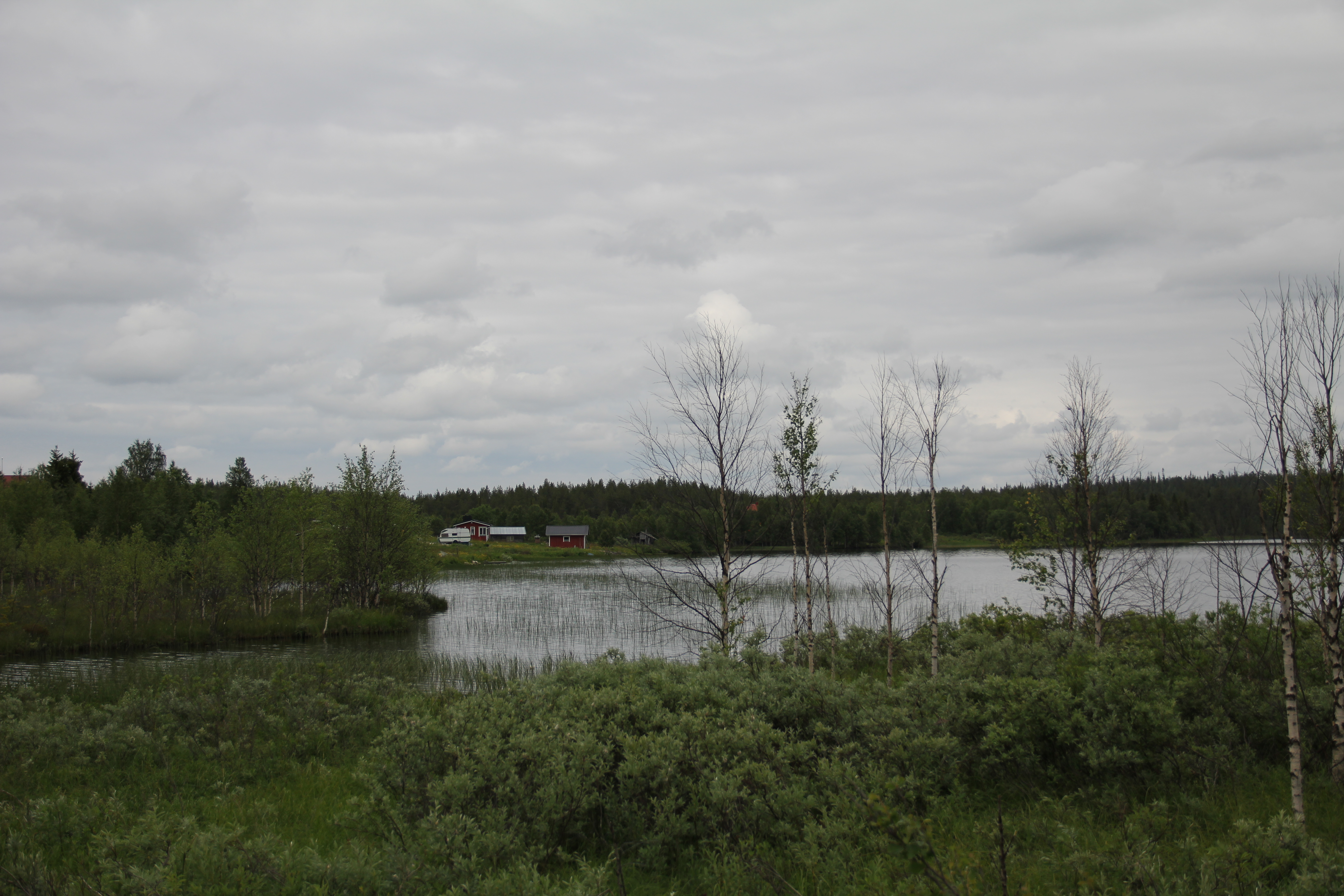 Seitajärventie, Savukoski, Finland. A museum road. – Lake Seitajärvi, northwest bank.